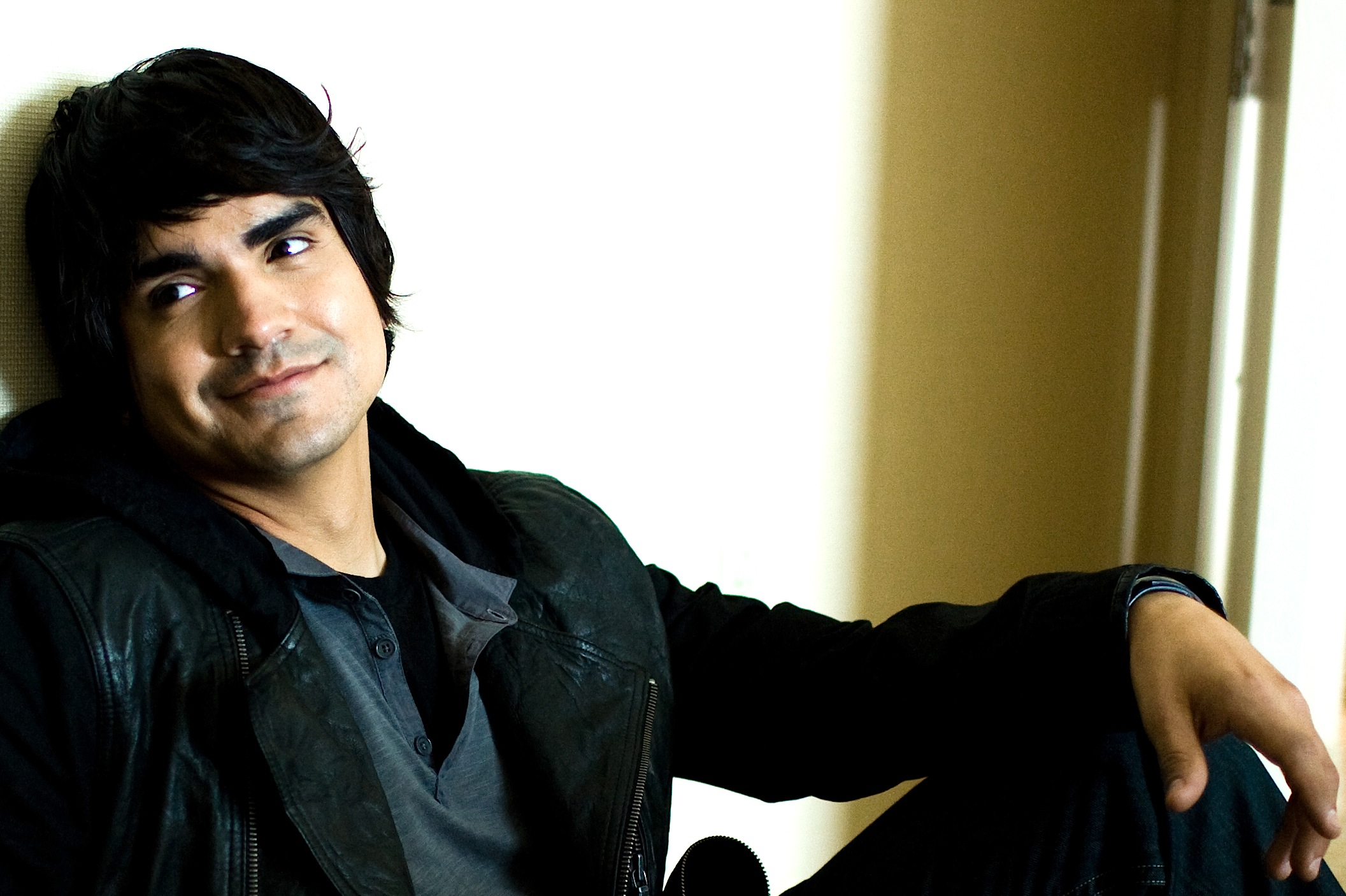 A photograph of illusionist [Jason Bishop], rights are held by Jason Bishop and were released via Creative Commons Attribution ShareAlike 3.0